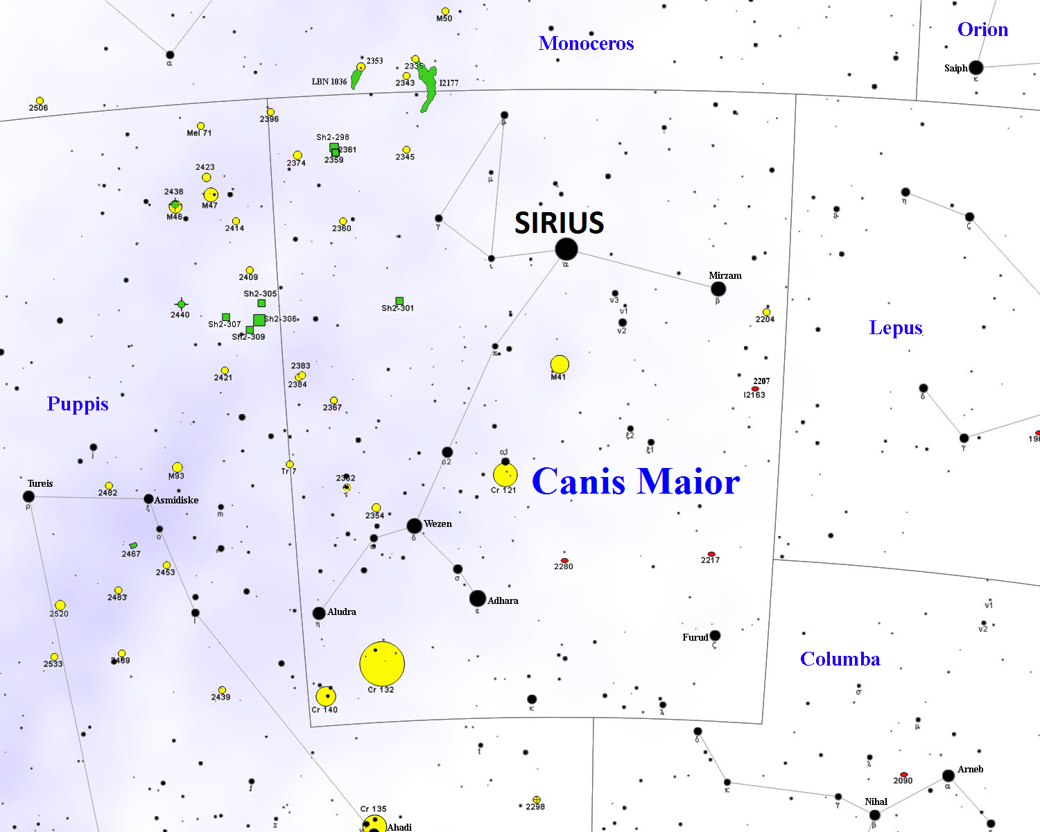 Canis Major constellation map, with DSOs